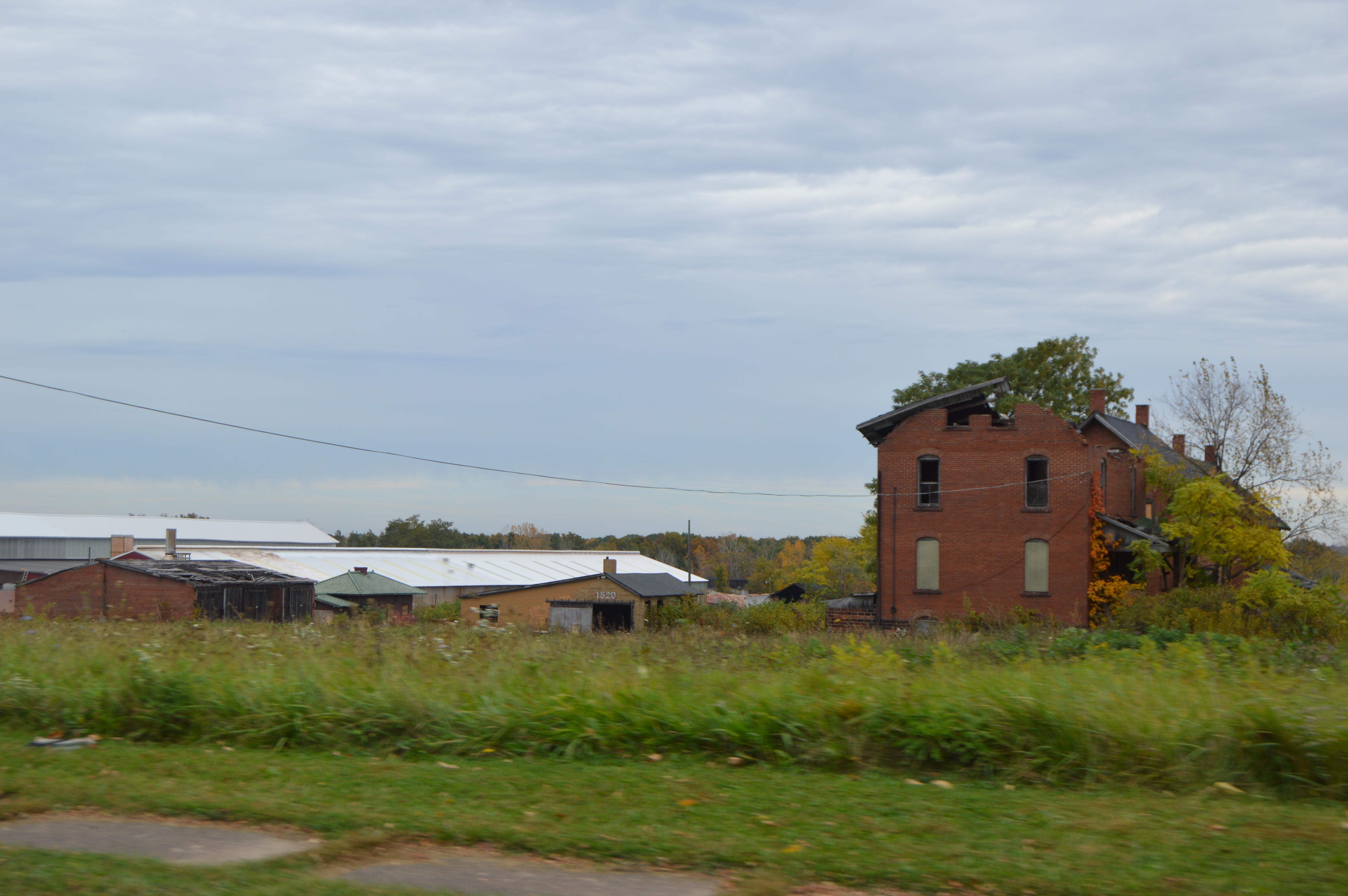 Buildings in the former Alliance Clay Product Company complex, located at 1500 S. Mahoning Avenue east of Alliance in Smith Township, Mahoning County, Ohio, United States. The complex has been designated a historic district and listed on the National Register of Historic Places.